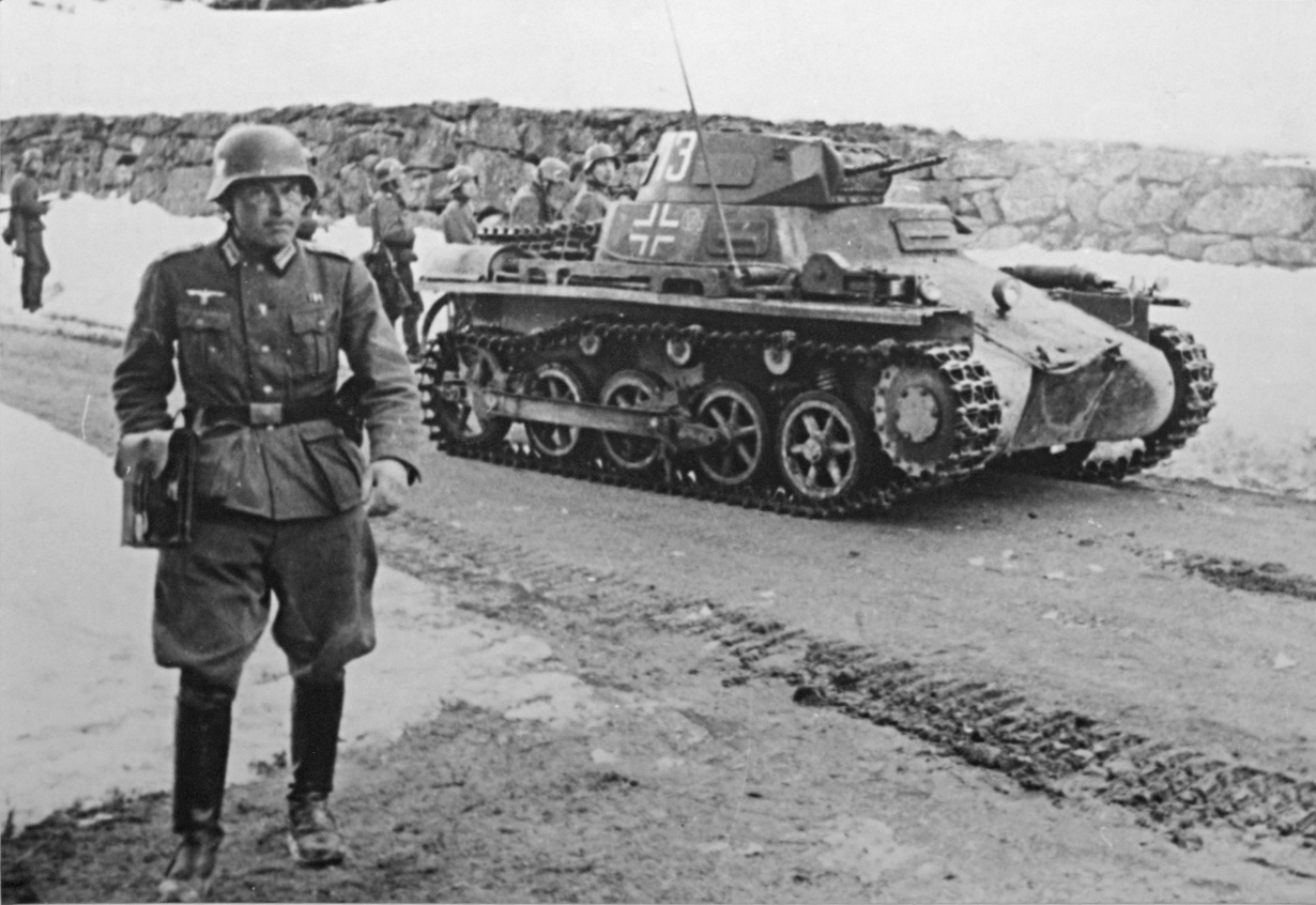 Herbert Stemmer in front of a PzKpfw I, early 18. april 1940. See also Kampene langs Randsfjorden, i Ådalen og Valdres. His military rank is unclear. Sources indicate Oberleutnant or Hauptmann(R). Photo seems to indicate one star on either shoulder which indicates Oberleutnant at that time.